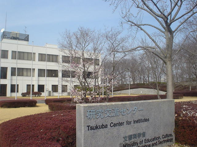 Tsukuba Center for Institutes at Tsukuba, Ibaraki